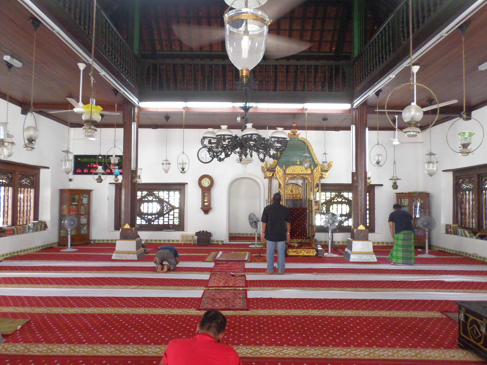 Kampung Hulu Mosque, Malacca, MalaysiaBahasa Melayu: Masjid Kampung Hulu, Melaka, Malaysia